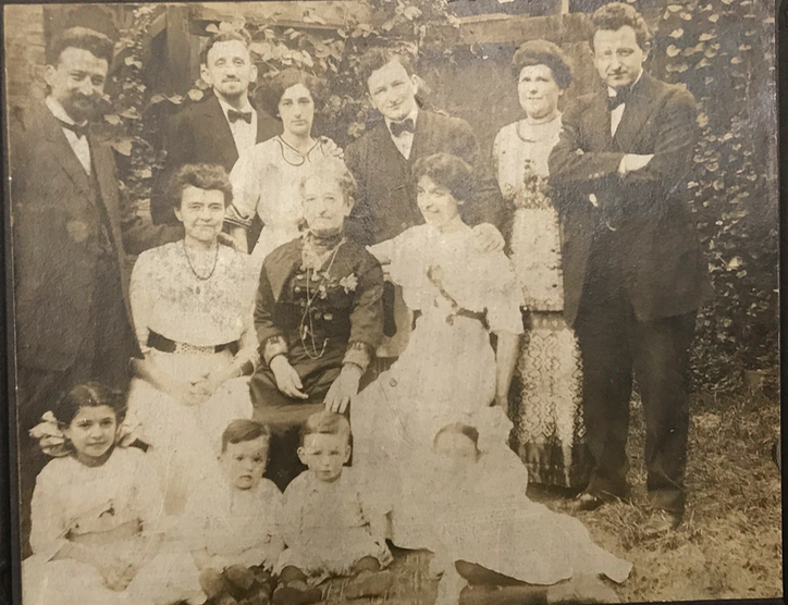 Fantus family Picture (Fantus at top left)